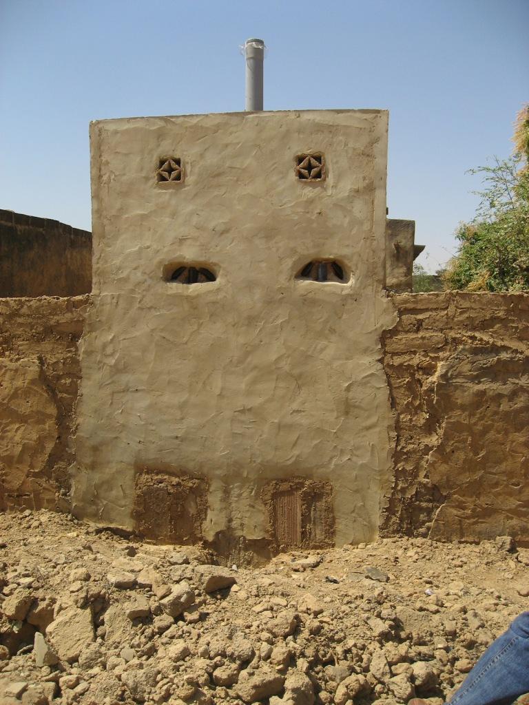 Backside of the UDDT